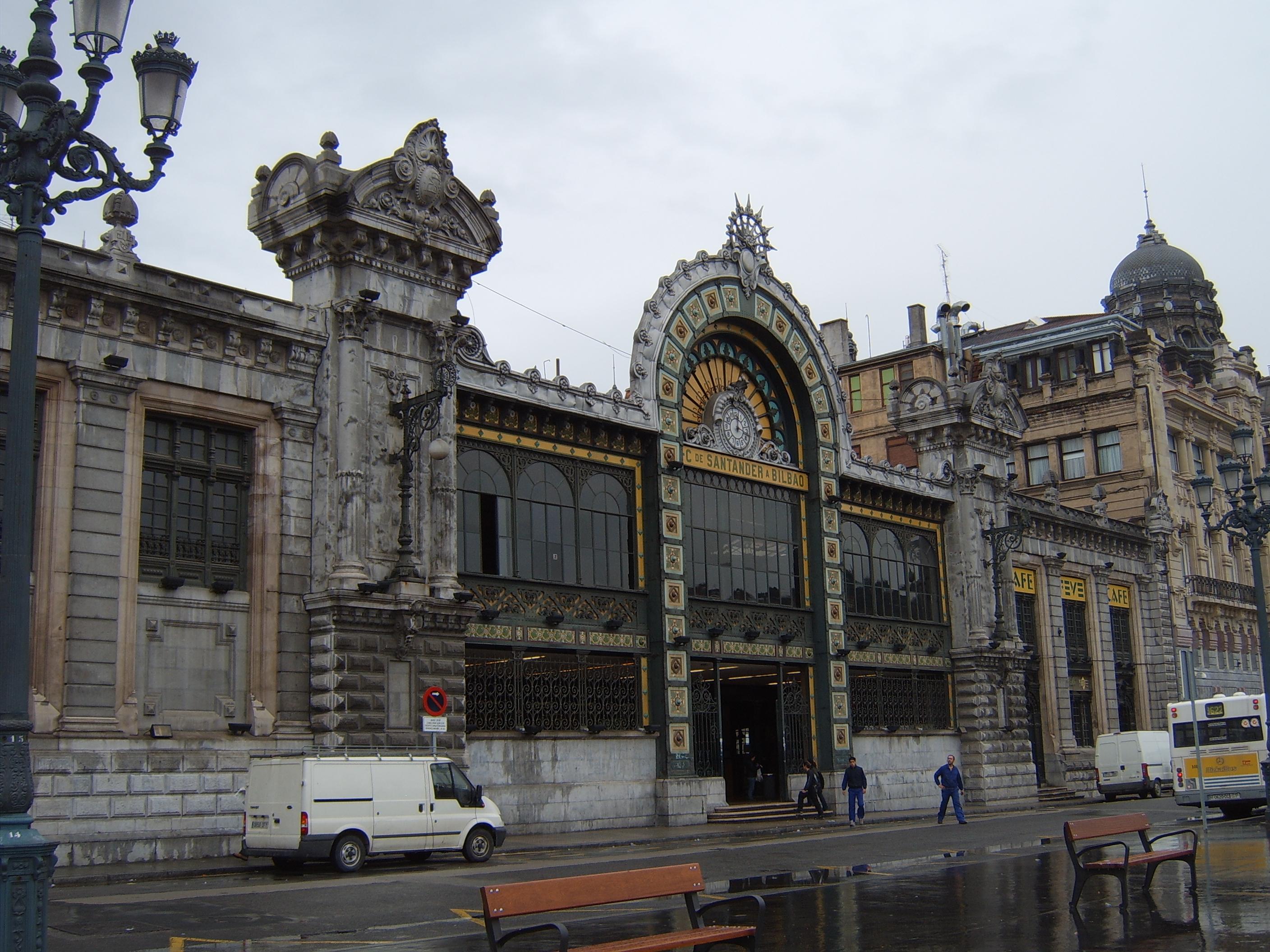 Front of the main FEVE station in Bilbao.